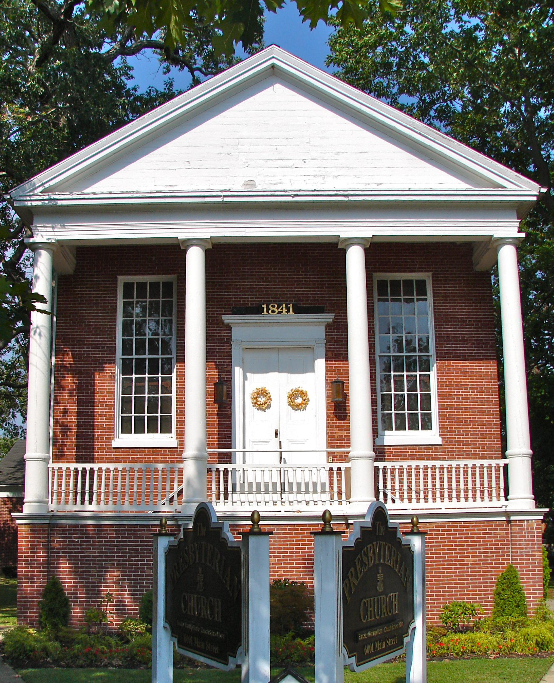 Mays Landing Presbyterian Church on the NRHP since April 20, 1982. At Main St. and Cape May Ave. in Mays Landing, Atlantic County, New Jersey. The entire "downtown" area is an NRHP Historic District, but this is listed separately.